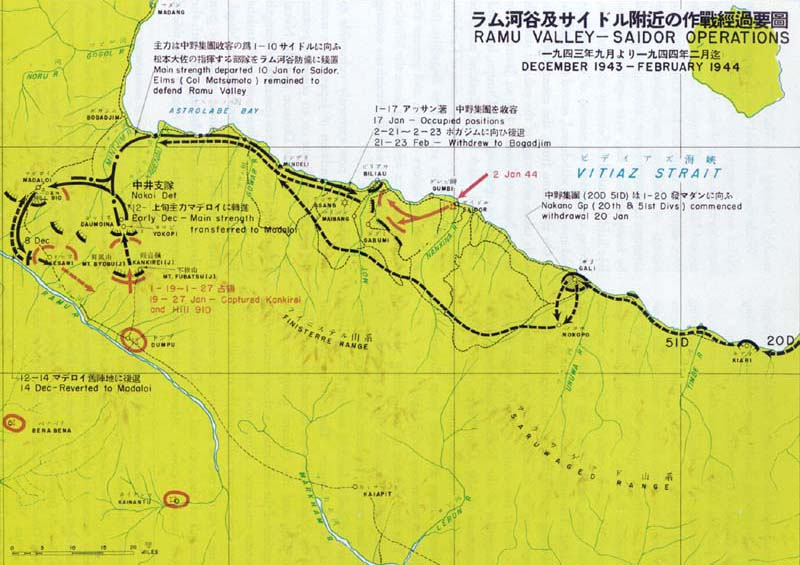 Ramu Valley and Saidor Operations, December 1943-February 1944